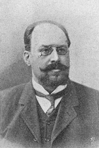 Valde Hirvikanta (1863-1911), the Procurator of Finland, the president of Turku Court of Appeal, and a member of the parliament. Murdered in 1911.